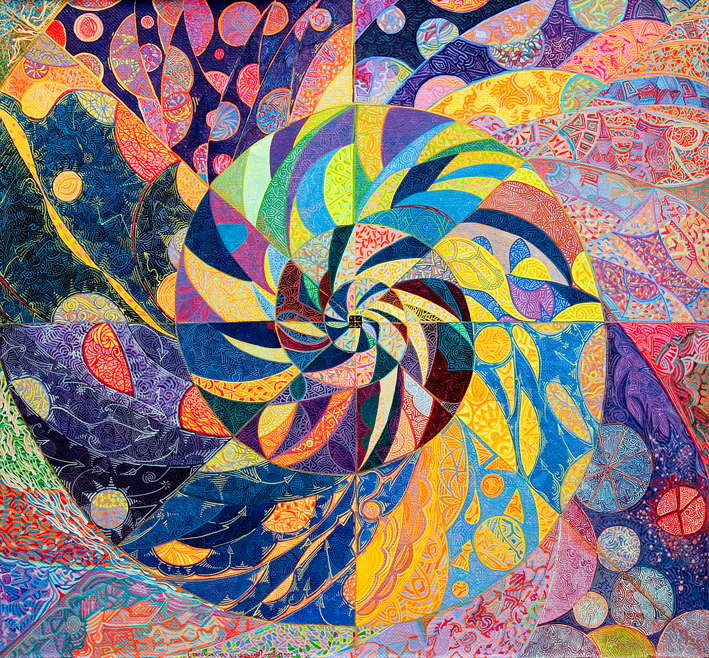 Paining by Lola Lonli. "Collapse of the Universe". 2006. Egg tempera on canvas. 75 x 75